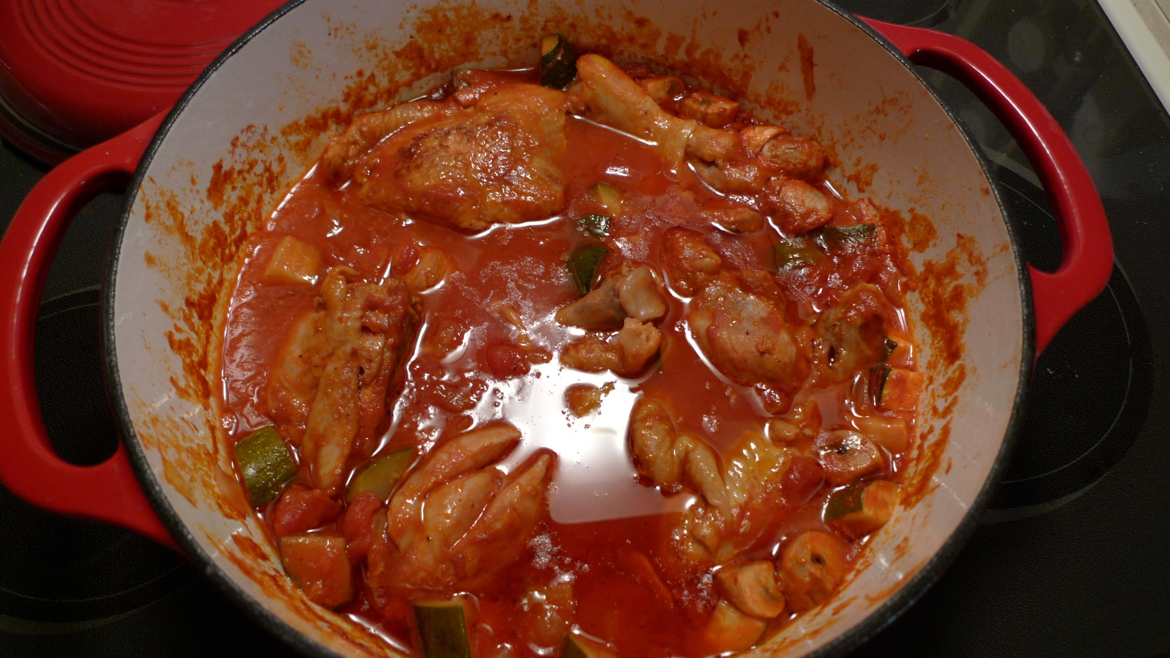 Chicken cacciatore